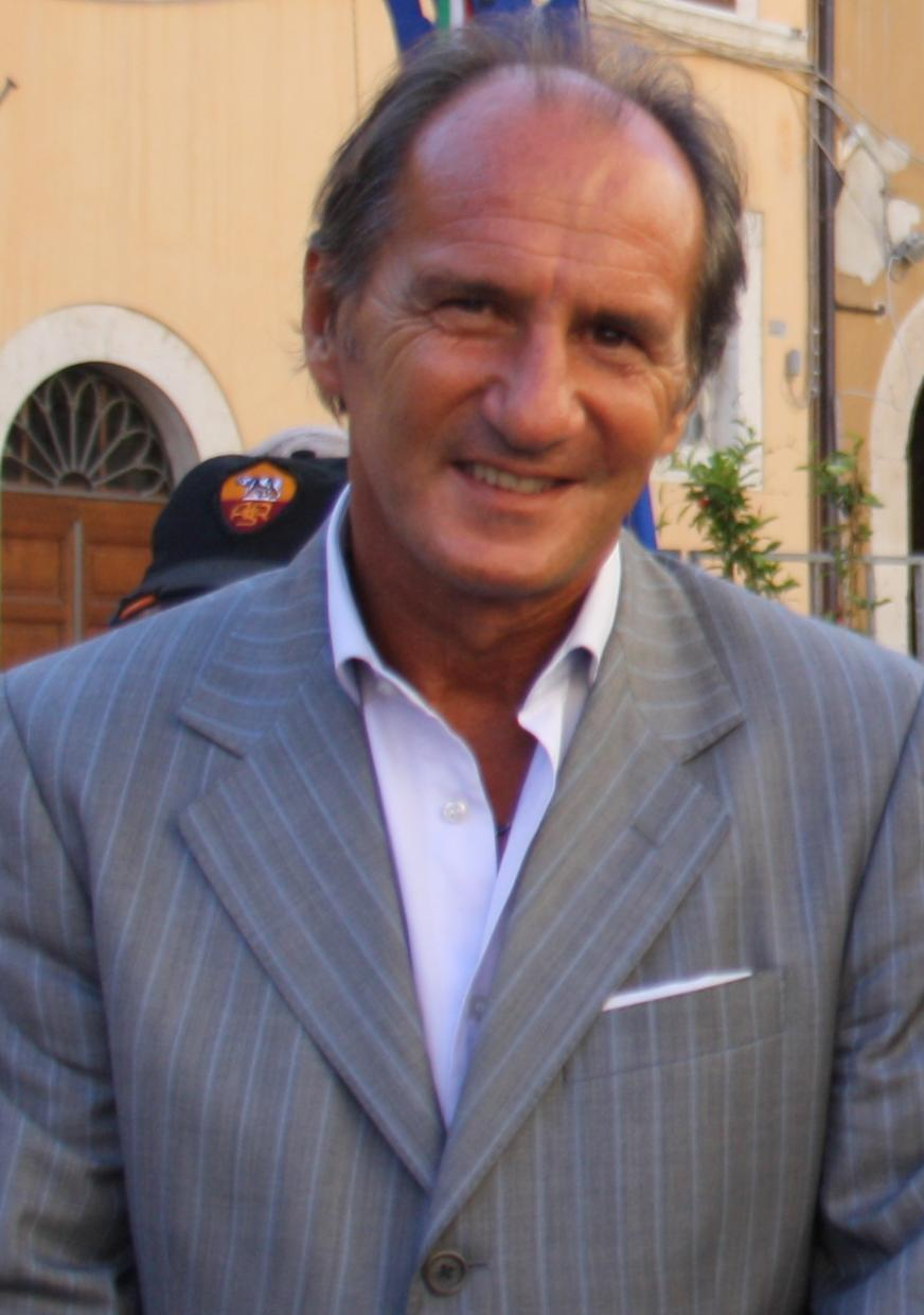 Photo of Antonio Tempestilli